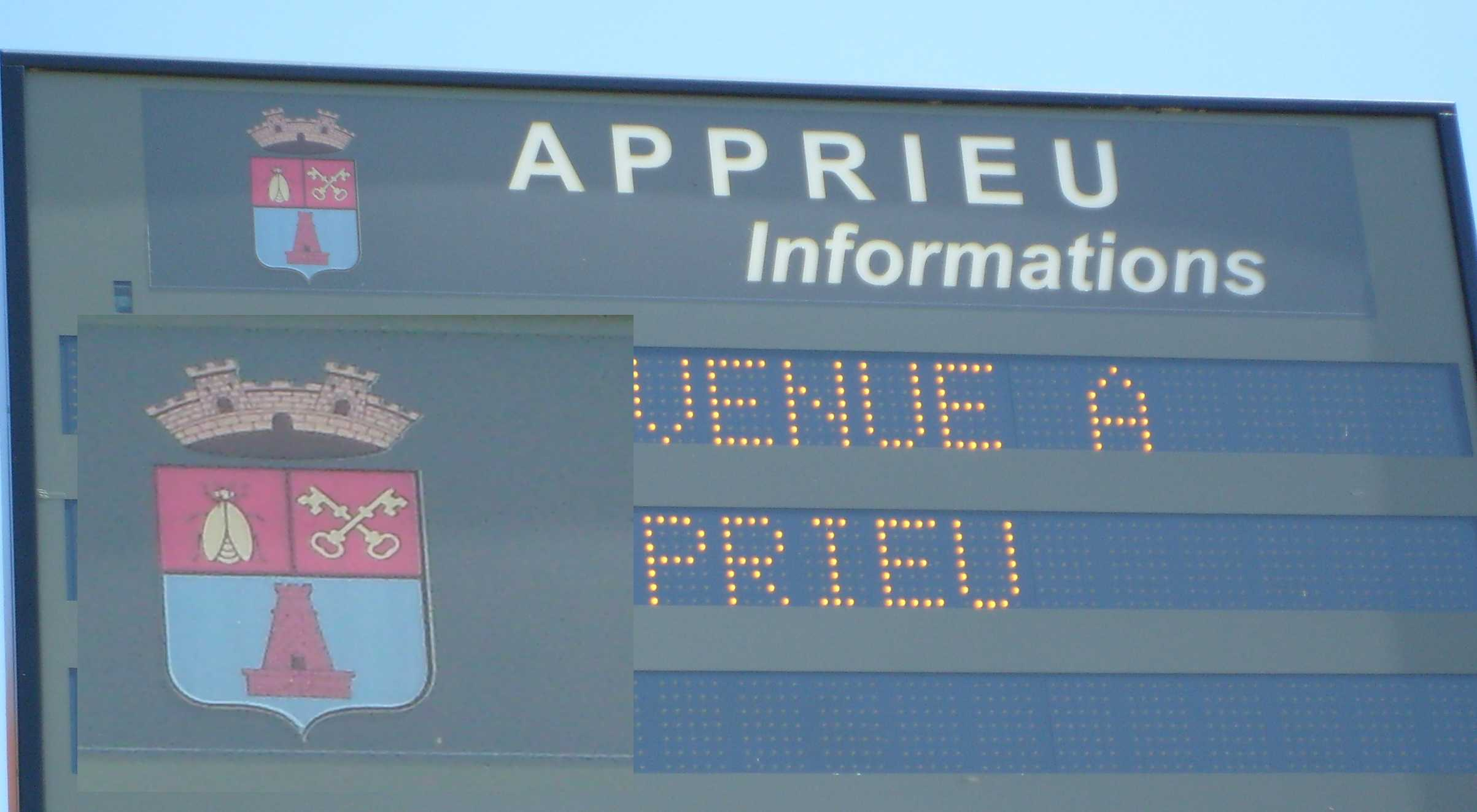 Coat of arms of Apprieu( Isère, France)